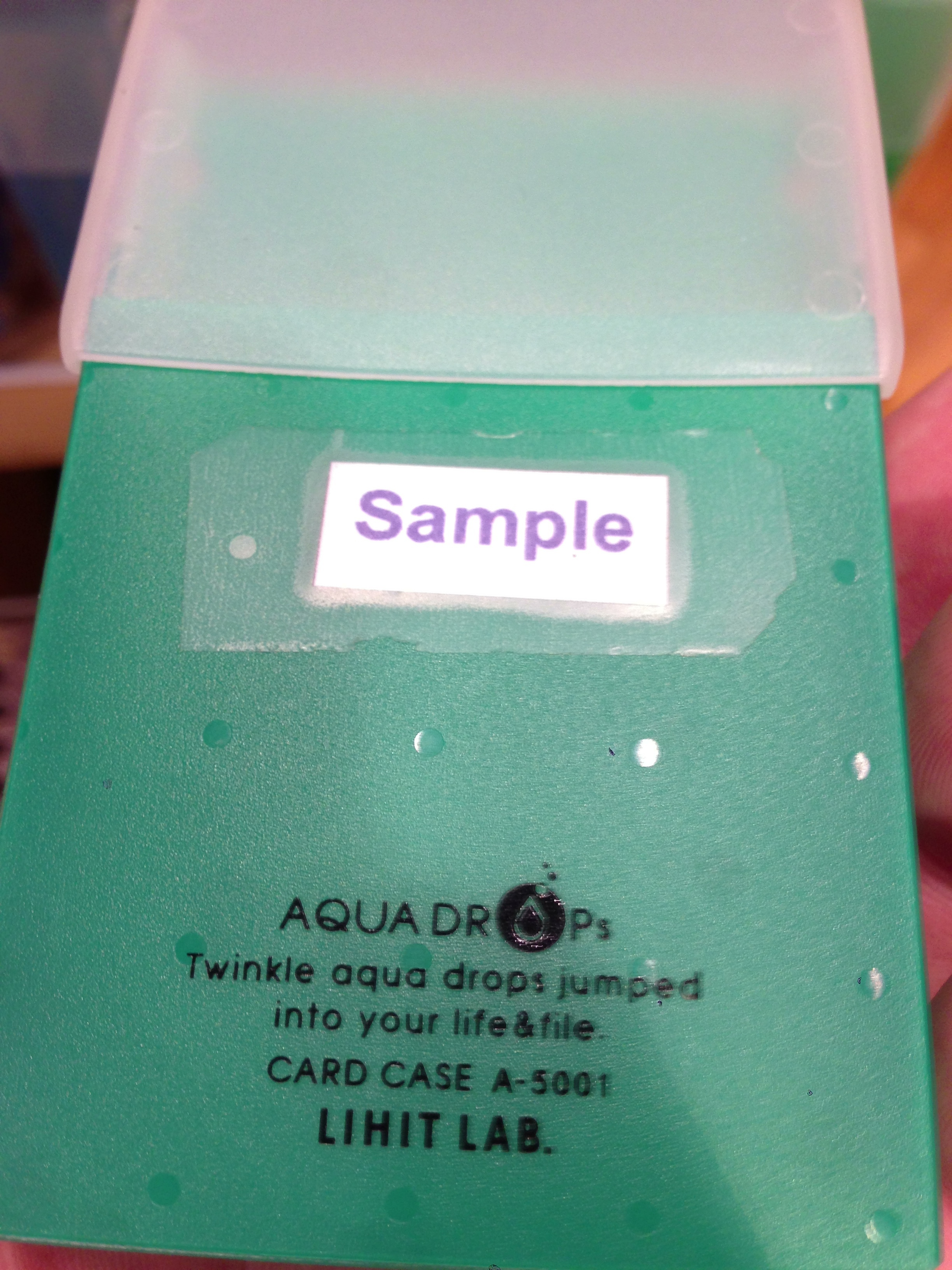 Engrish